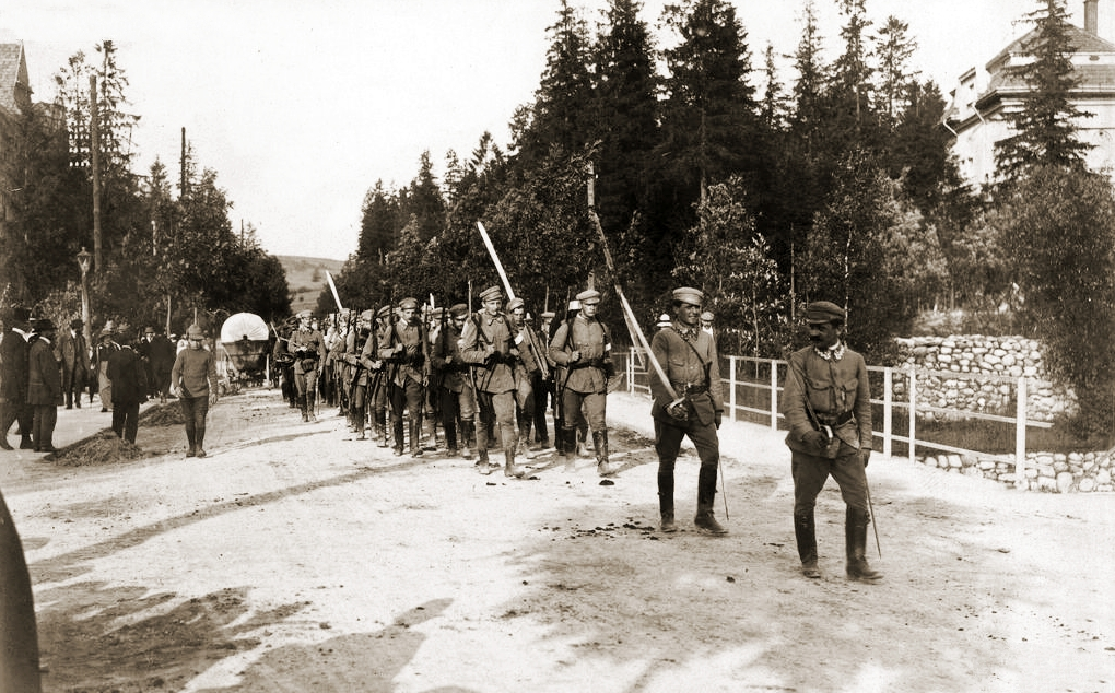 Mieczysław Ryś Trojanowski and Związek Strzelecki paramilitary troop. Zakopane, 08. 1913